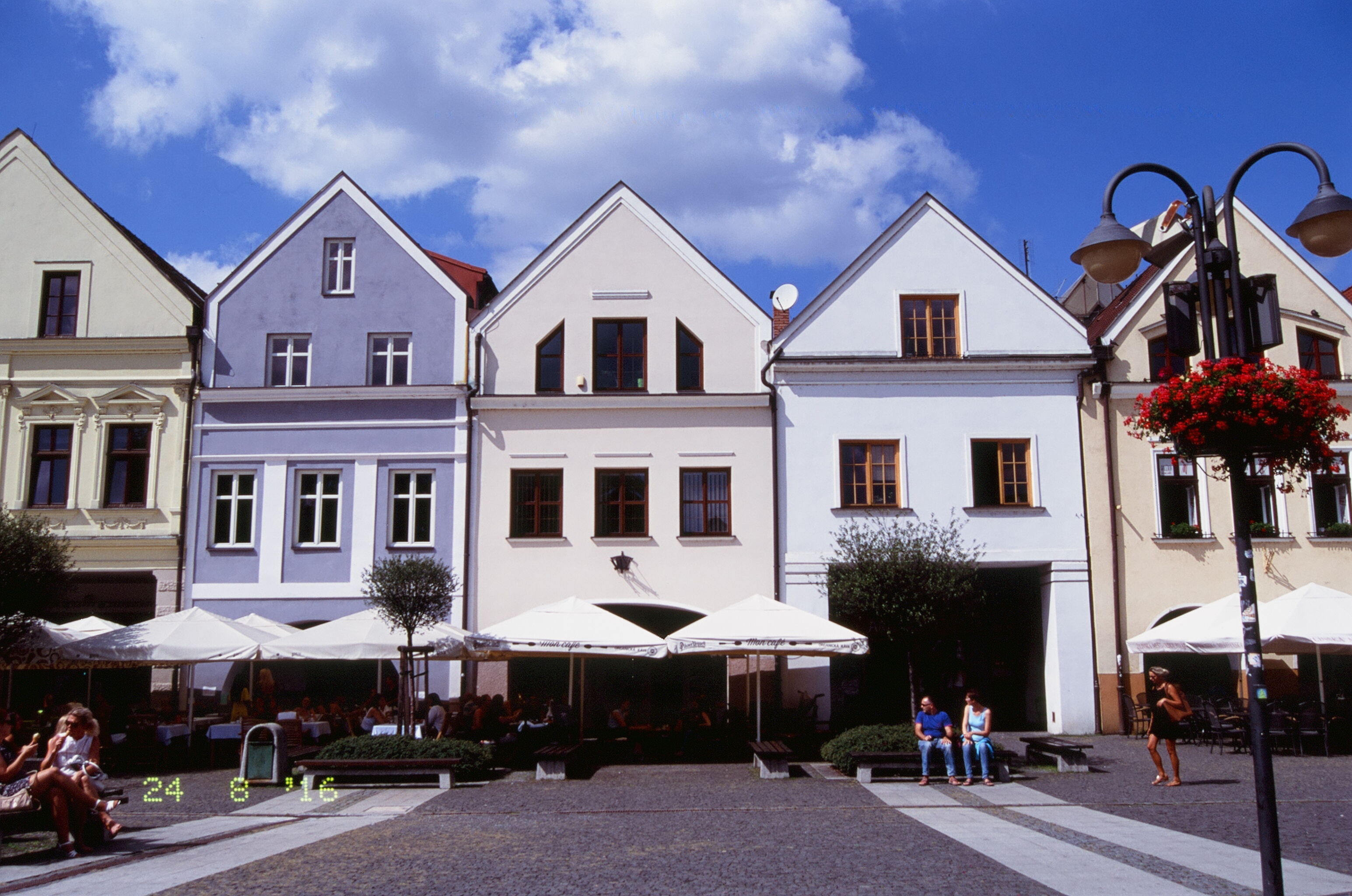 St. Mary square in downtown Žilina, Slovakia